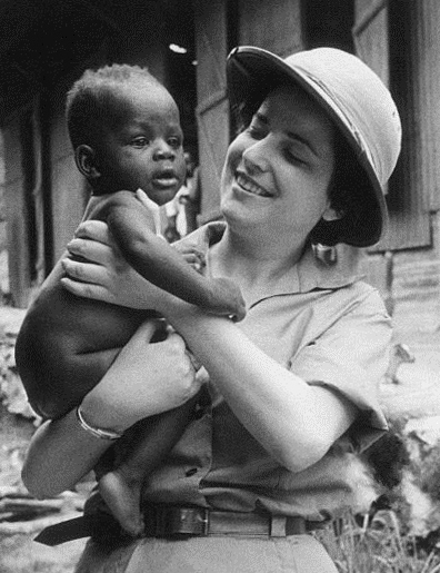 Italian journalist and writer Grazia Livi holding a baby. The journalist was sent in Lambarn by the weekly magazine Epoca to interview German doctor and Nobel Peace Prize laureate Albert Schweitzer. Lambarn, March 1961